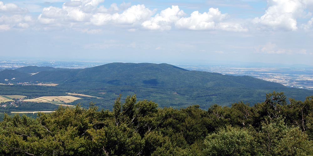 Anninger, seen from Hoher Lindkogel (834m, from southwest) against Vienna Basin; at the left background the houses of Vienna